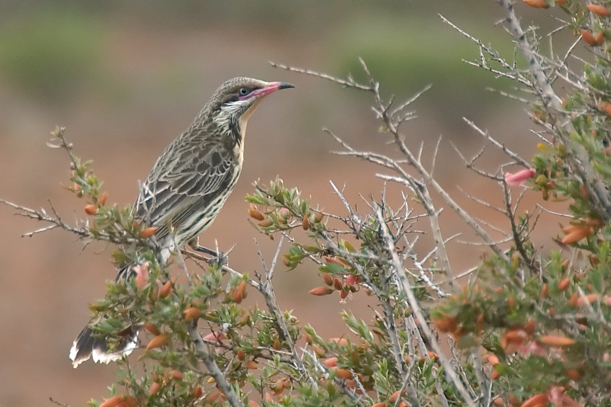 Spiny-cheeked Honeyeater taken at Gluepot Reserve, South Australia